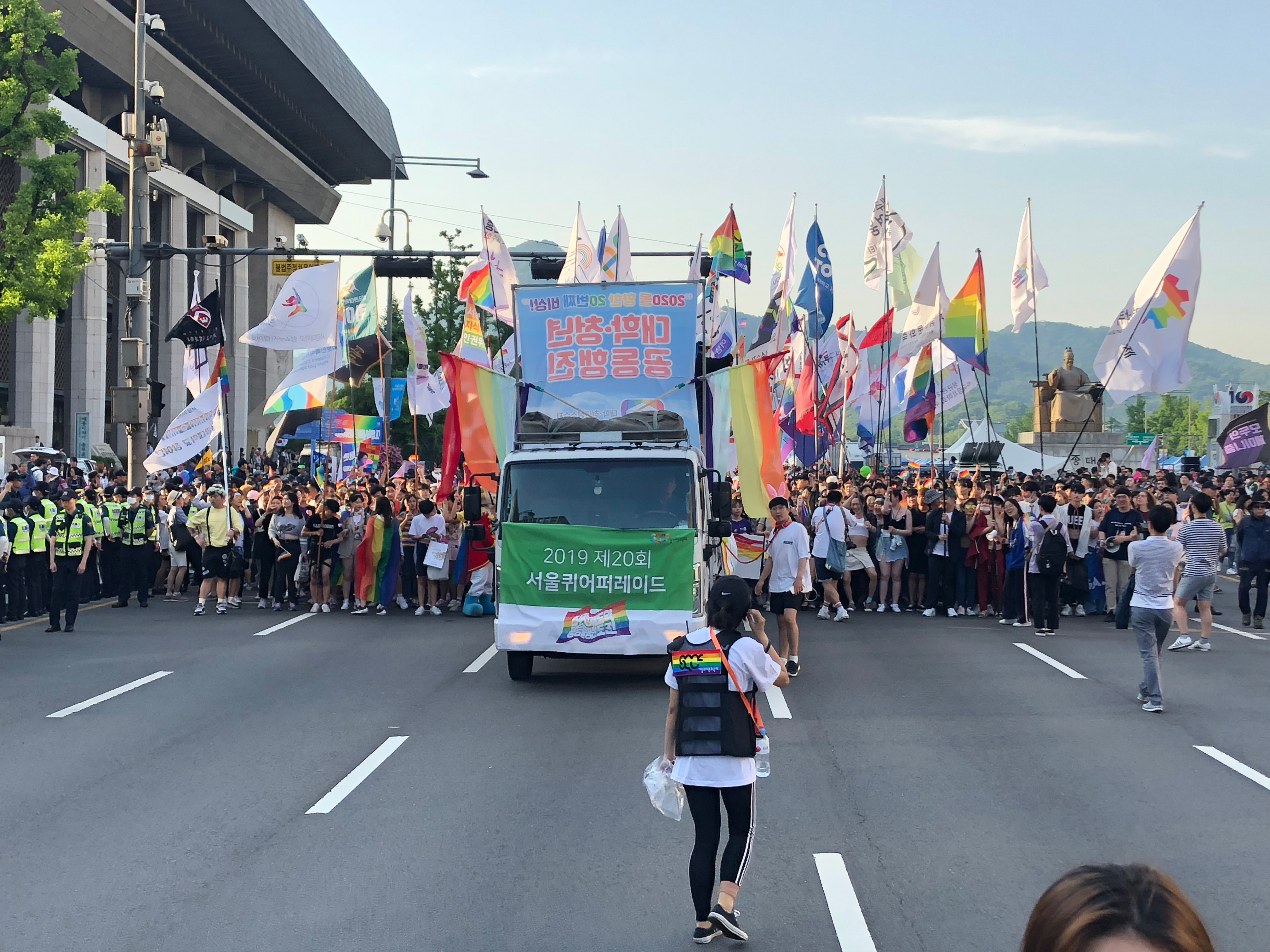 The Seoul Queer Pride Parade passes through Seoul's historic and traditional Gwanghwamun Plaza for the first time on June 1, 2019. 70,000 were in attendance.Location: Seoul, South KoreaEvent type: Pride ParadeDate or year: June 1, 2019